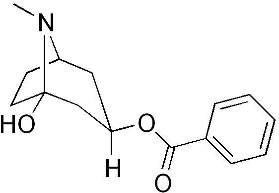 chemical structure of hydroxytropacocaine